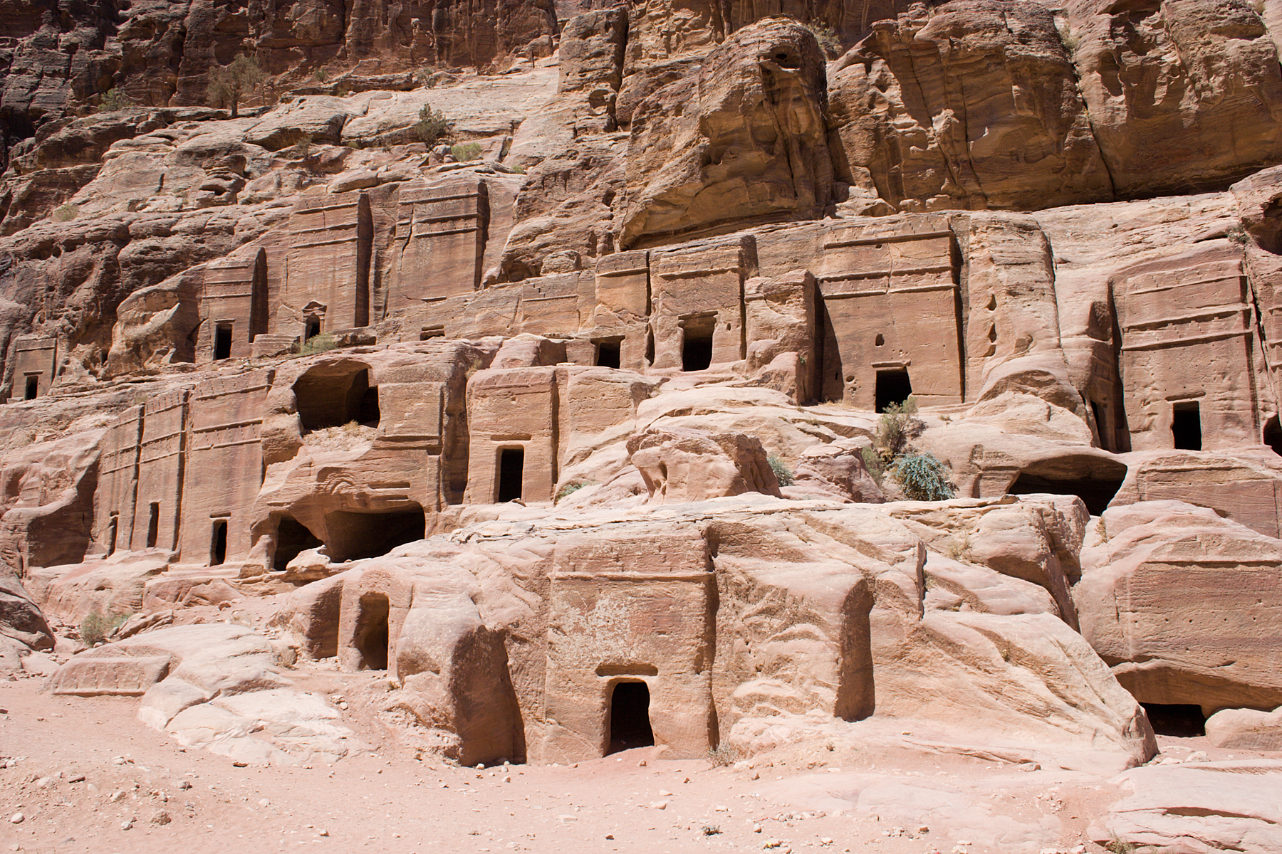 A number of dwellings carved into the sandstone at the Petra archaeological site — in southern Jordan.